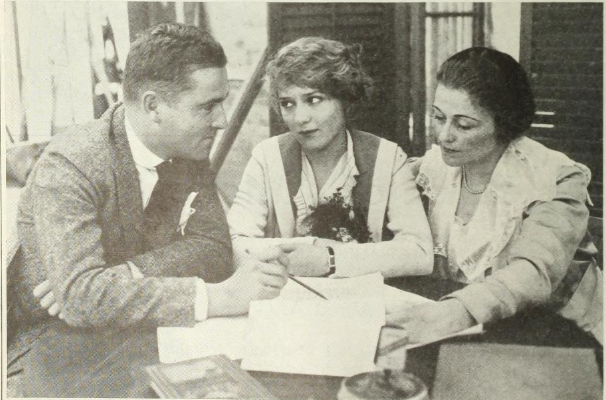 Promotional photograph of director Marshall Neilan, star Mary Pickford, and screenwriter Frances Marion